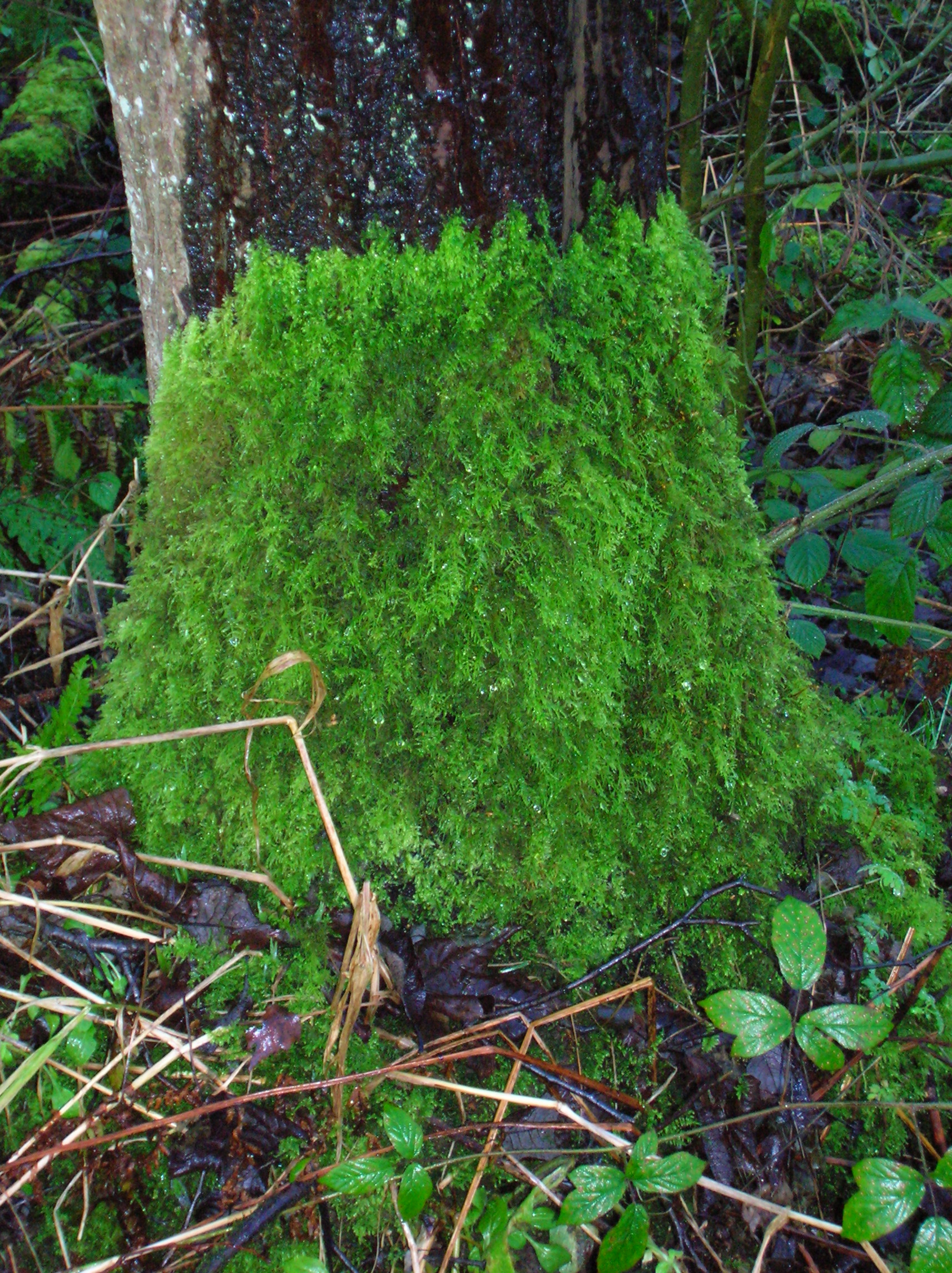 Moss on the trunk base of a silver birch (Betula pendula), Eglinton Country Park, Irvine, North Ayrshire, Scotland.